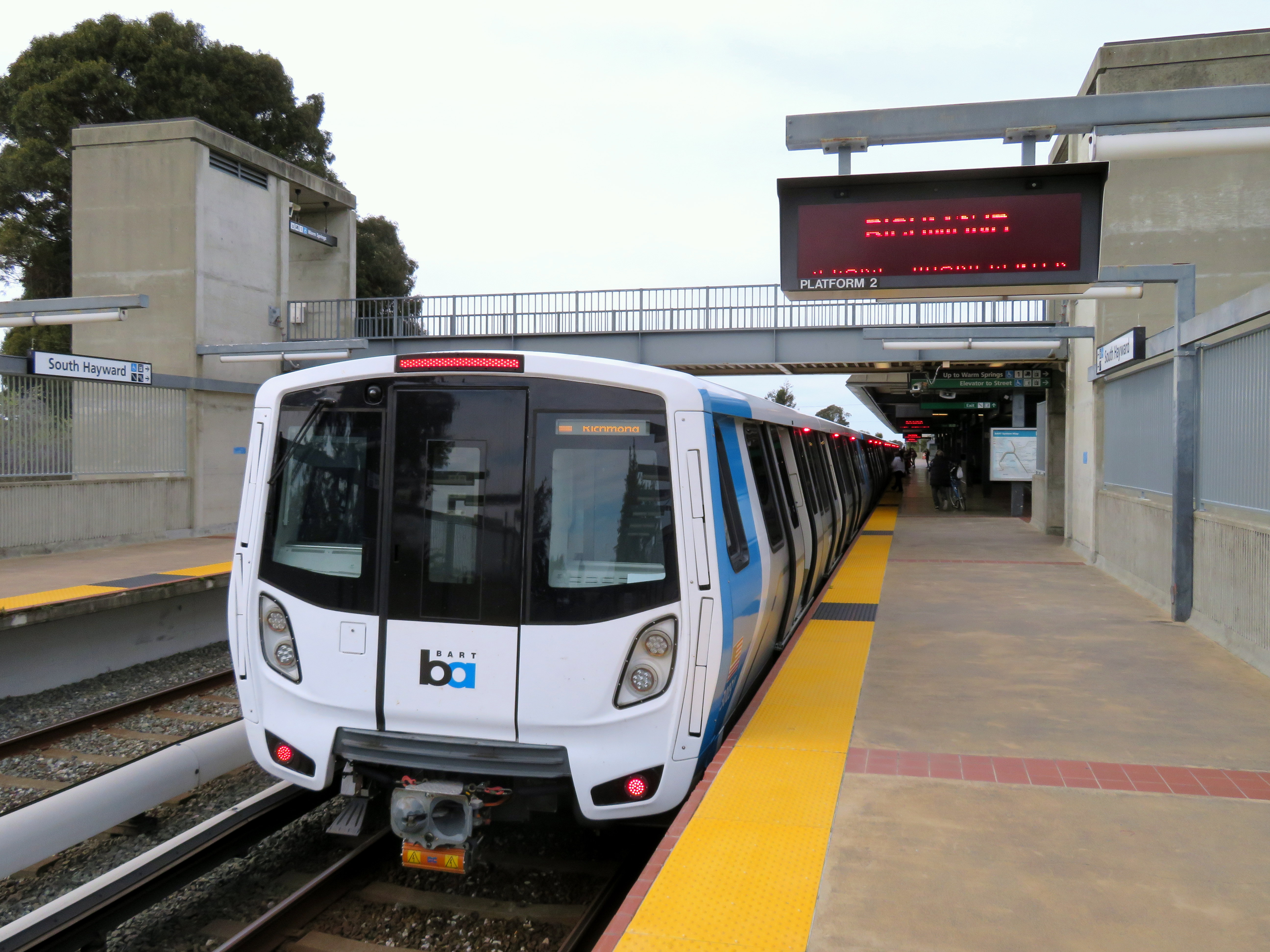 New BART train at South Hayward station in March 2018